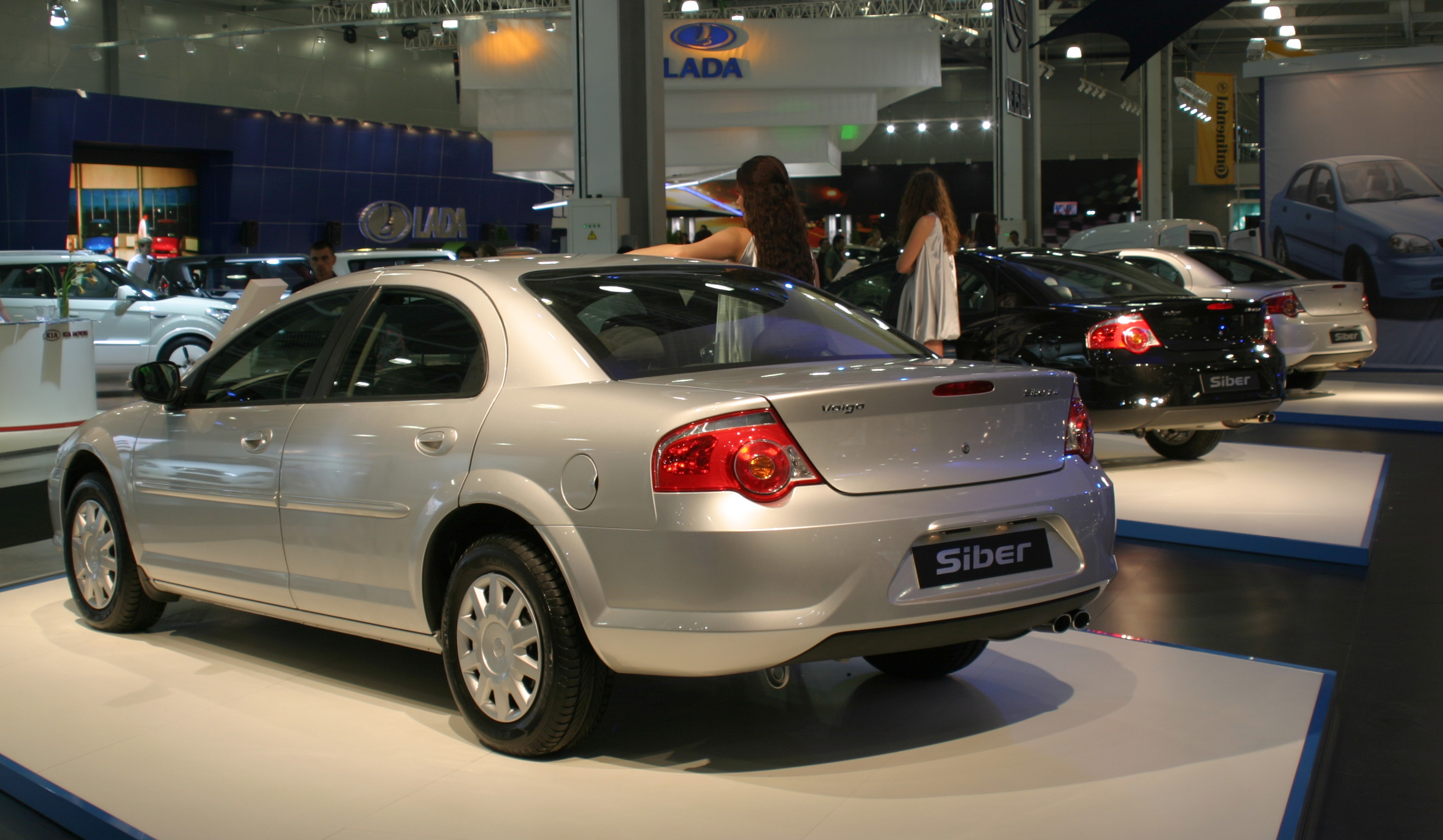 Volga Siber on GAZ Group booth at Moscow international autoshow, 26 august 2008